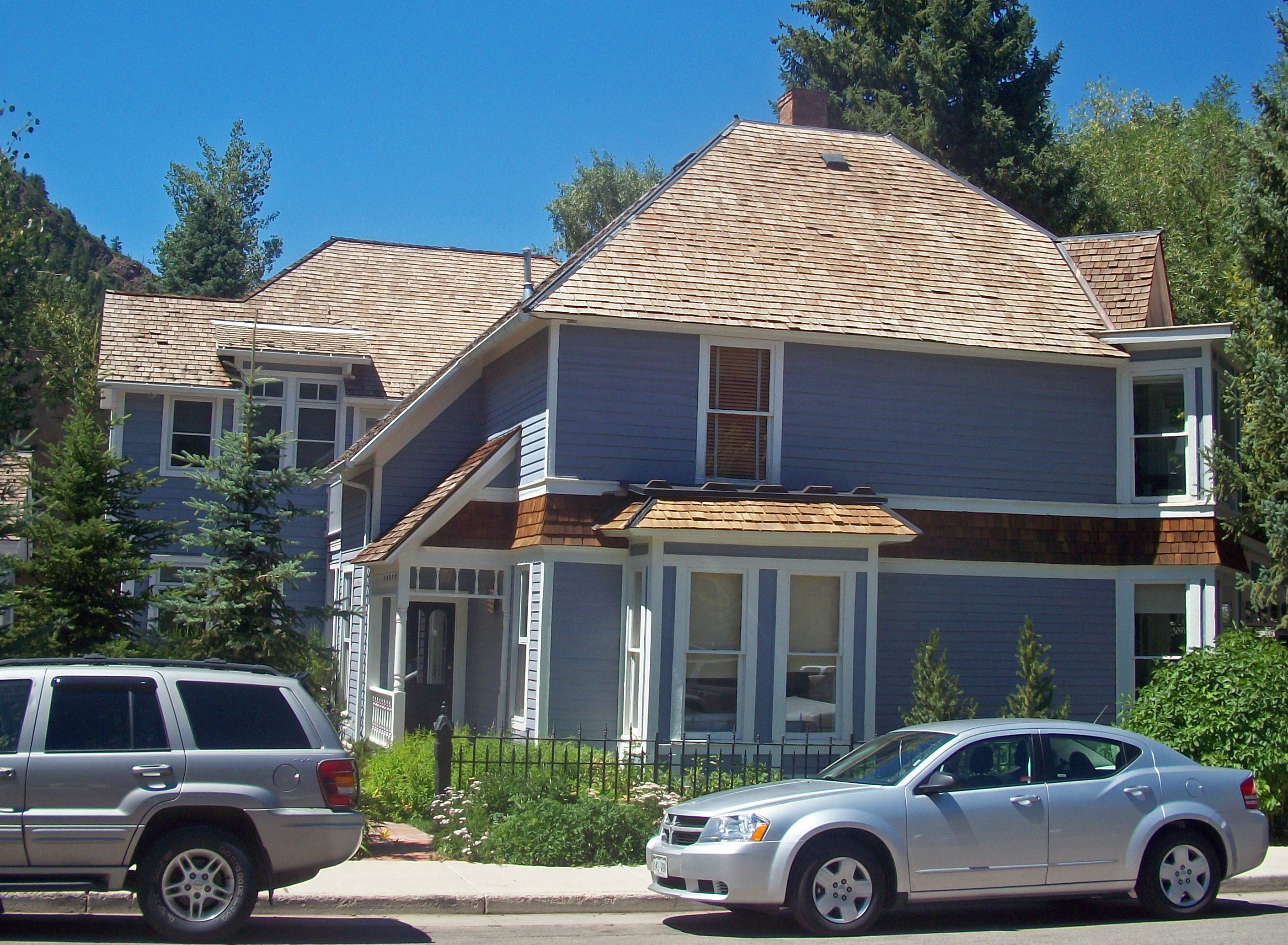 East elevation of Dixon–Markle House, Aspen, CO, USA. Front elevation shown here